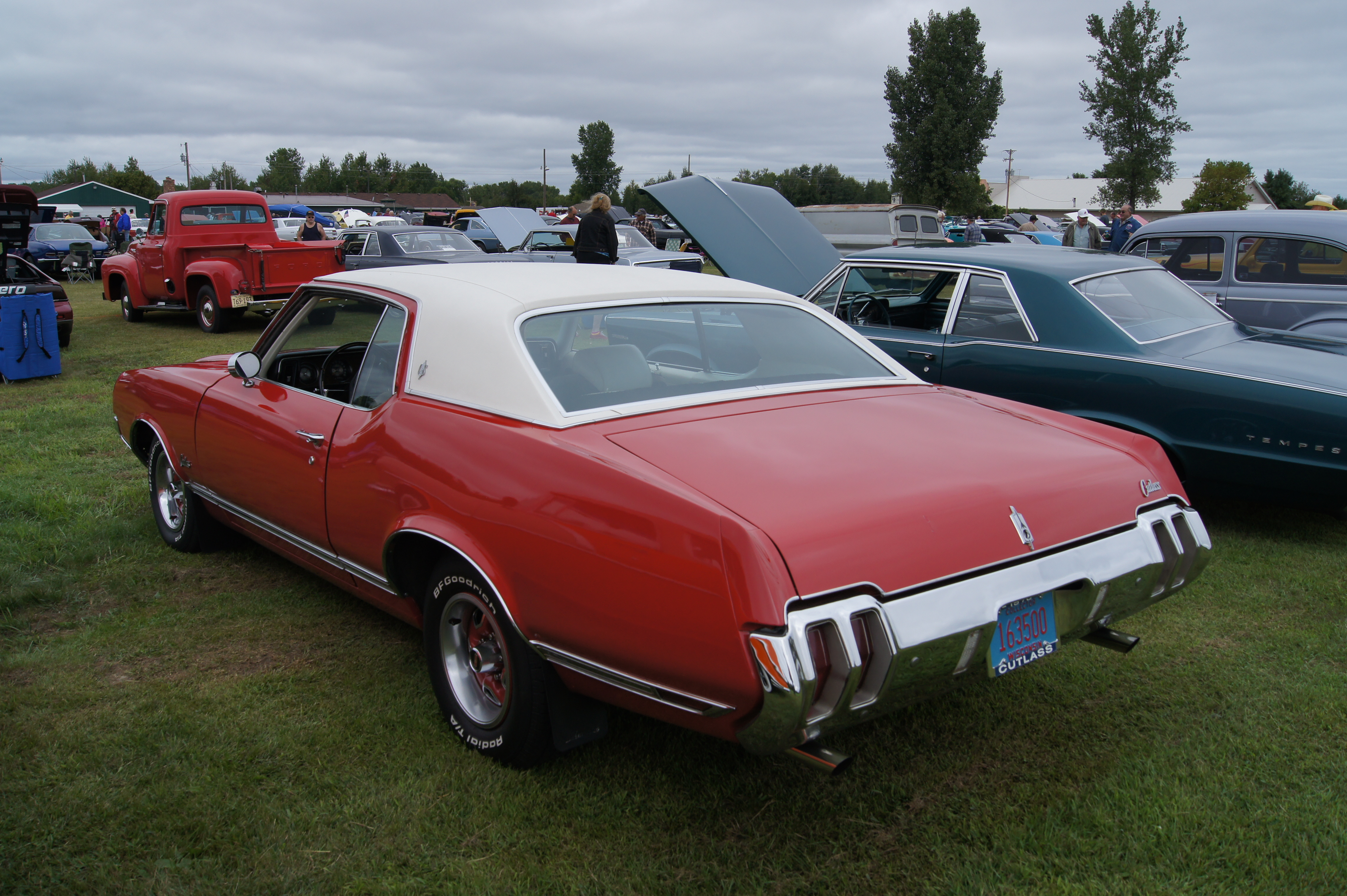 North Star Chapter Studebaker Drivers Club 13th Annual Labor Day Car Show September 2, 2013 Blacksmith Lounge Hugo, MN More Car Pictures